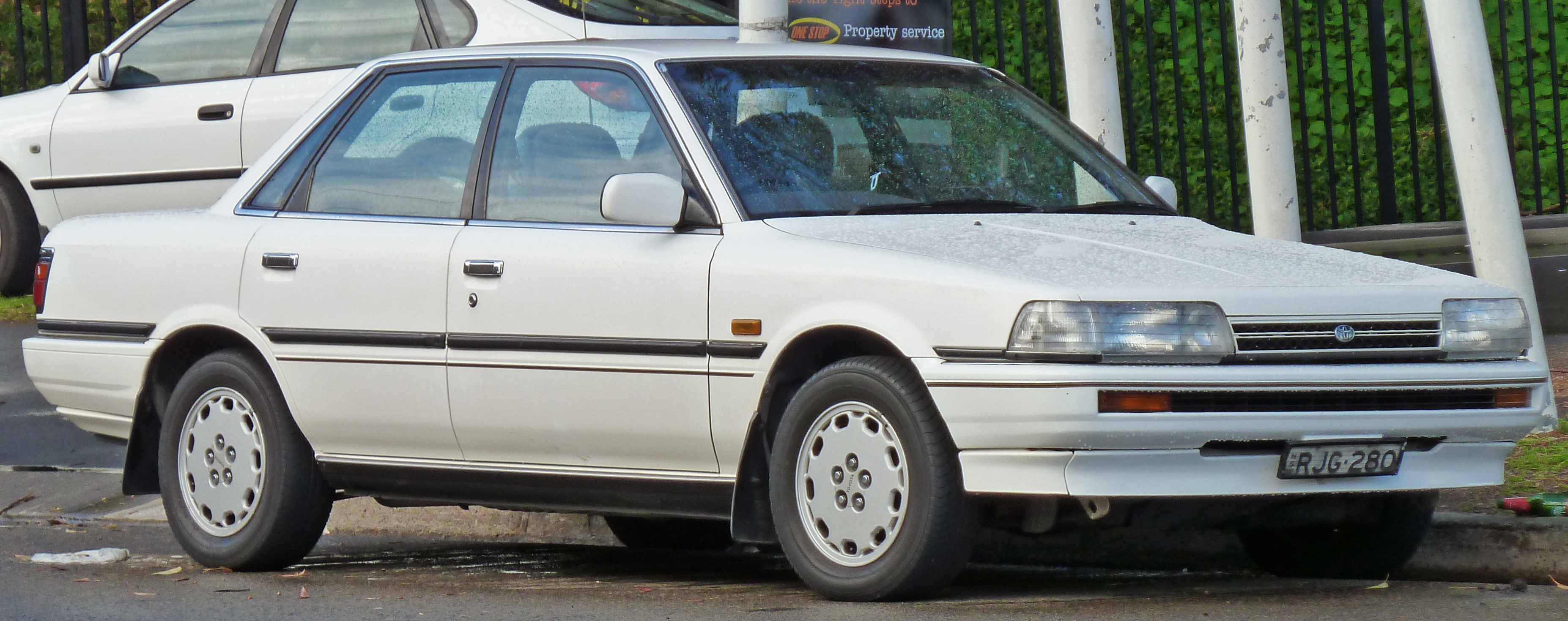 1991 Toyota Camry (SV21) Ultima sedan. Photographed in Cronulla, New South Wales, Australia.